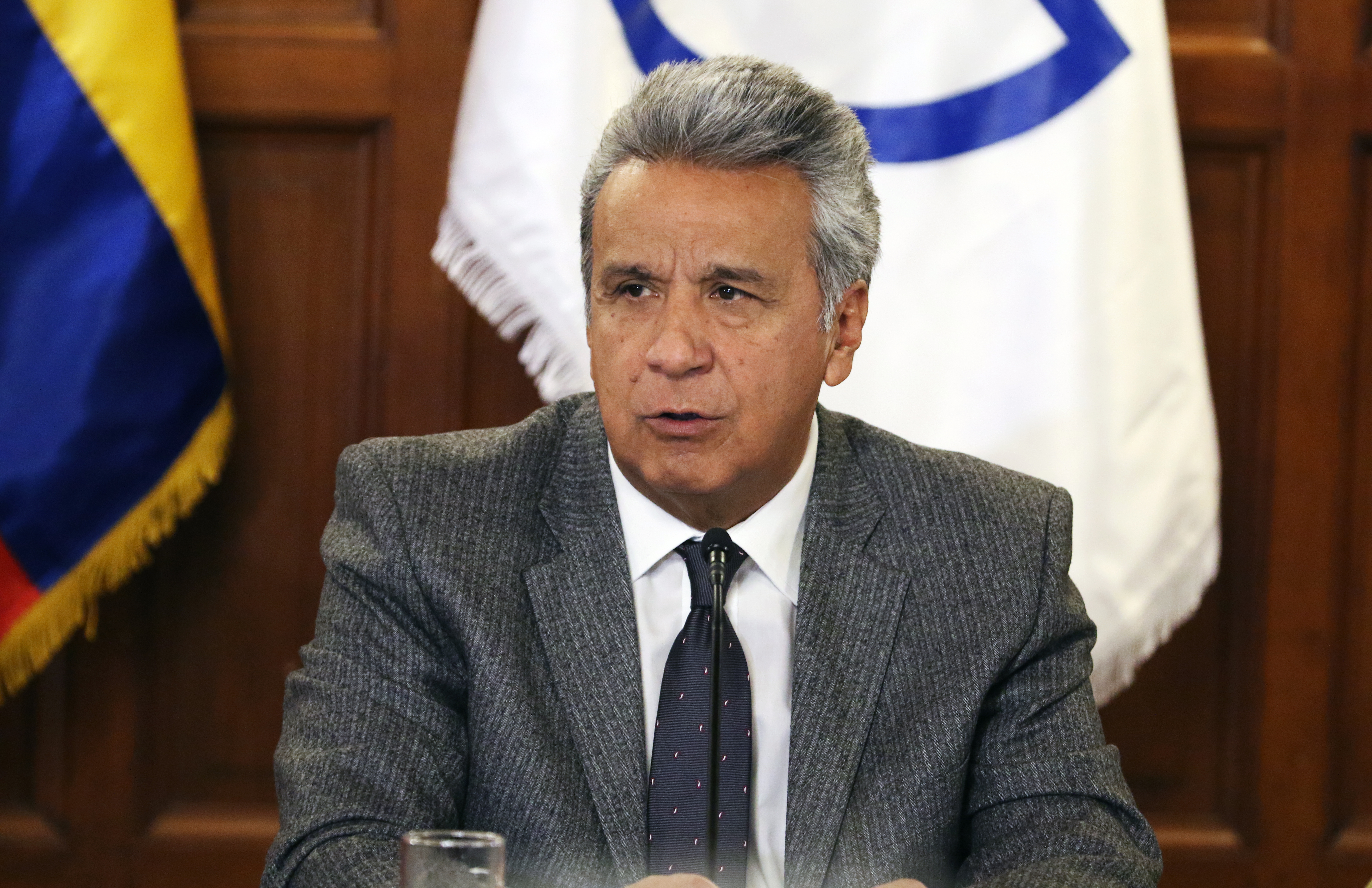 President Lenín Moreno discussing climate and geographical issues of Ecuador at a cabinet meeting in December 2017